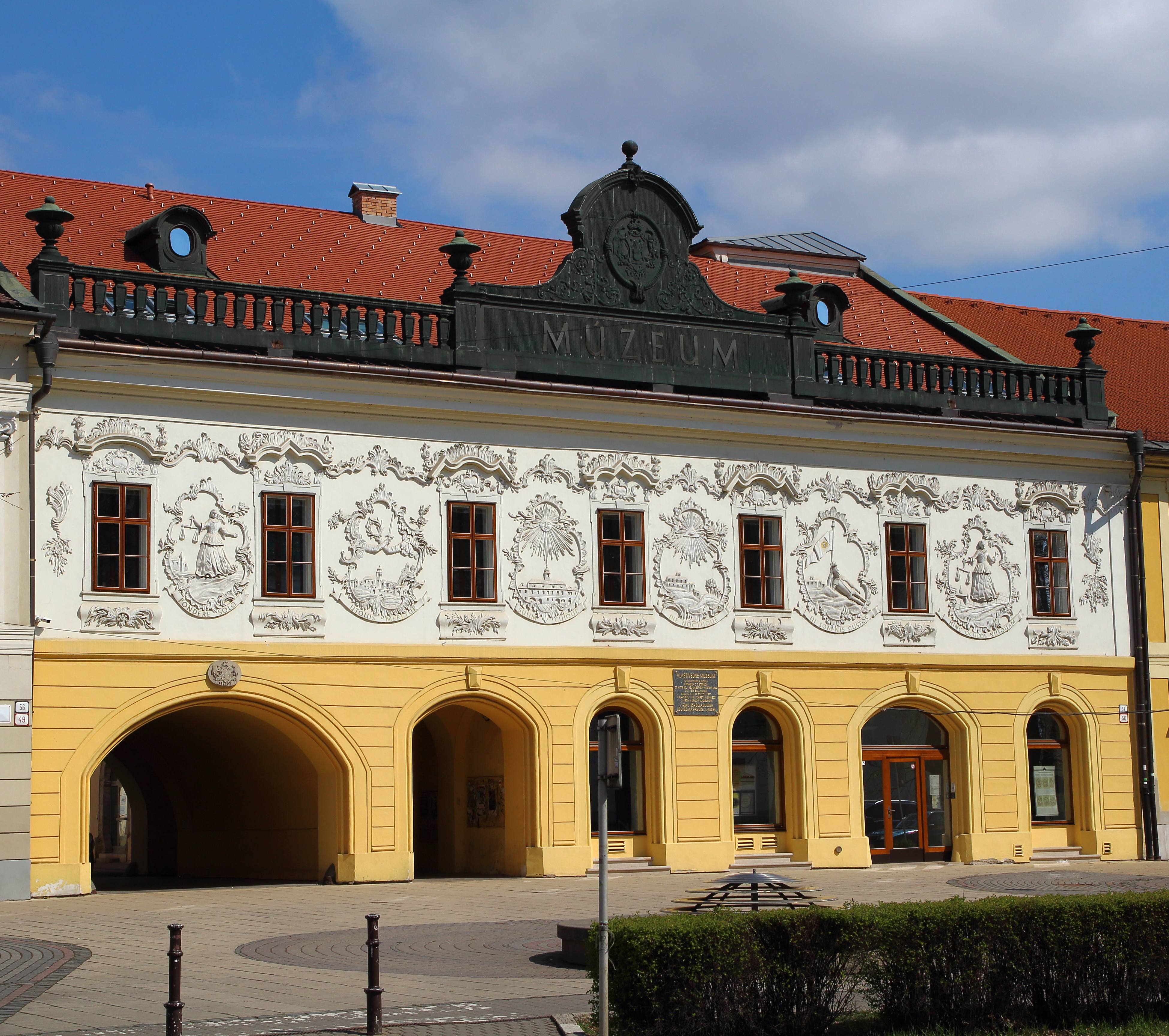 Template:Skˇ